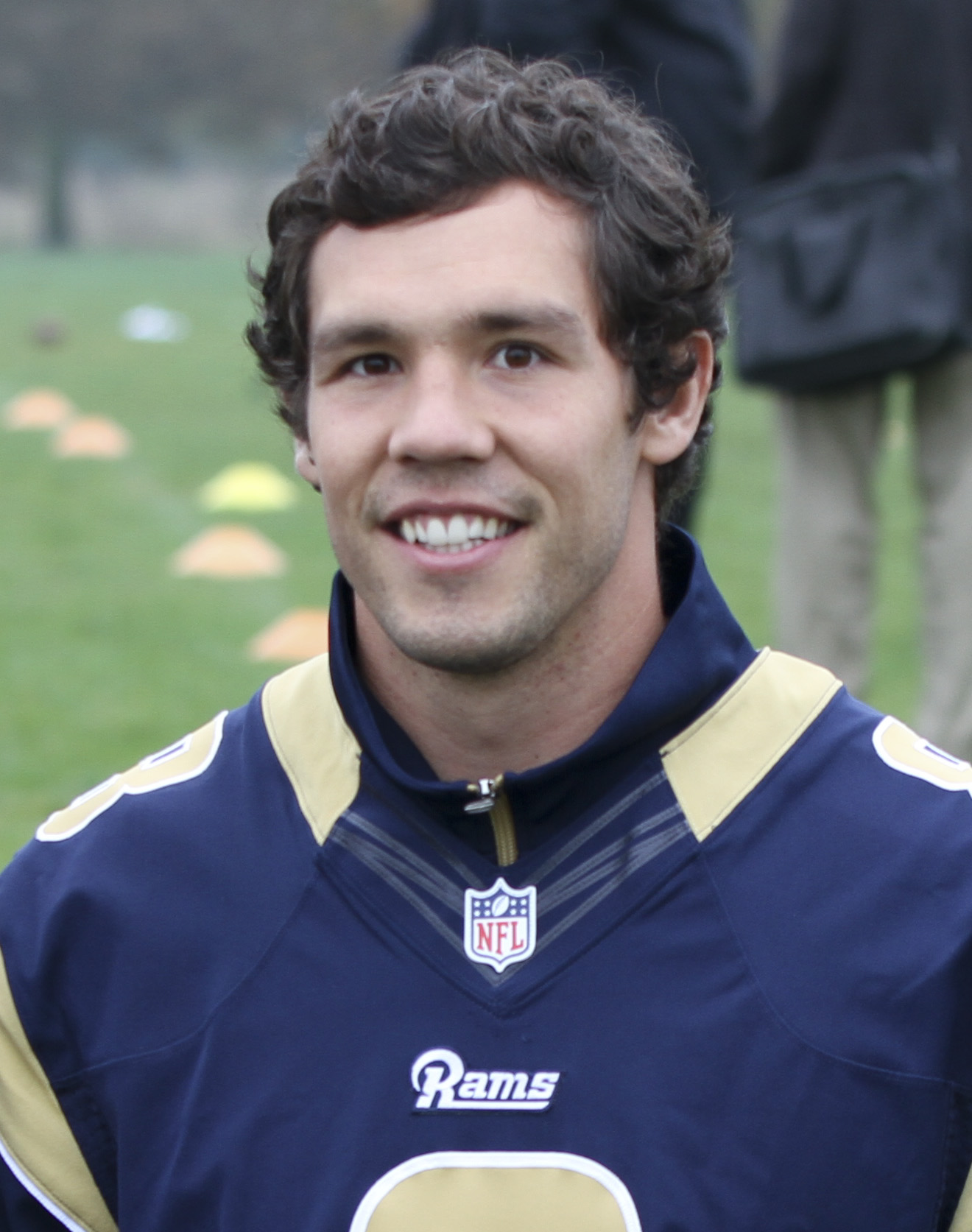 Rams quarterback Sam Bradford at the coaching clinic